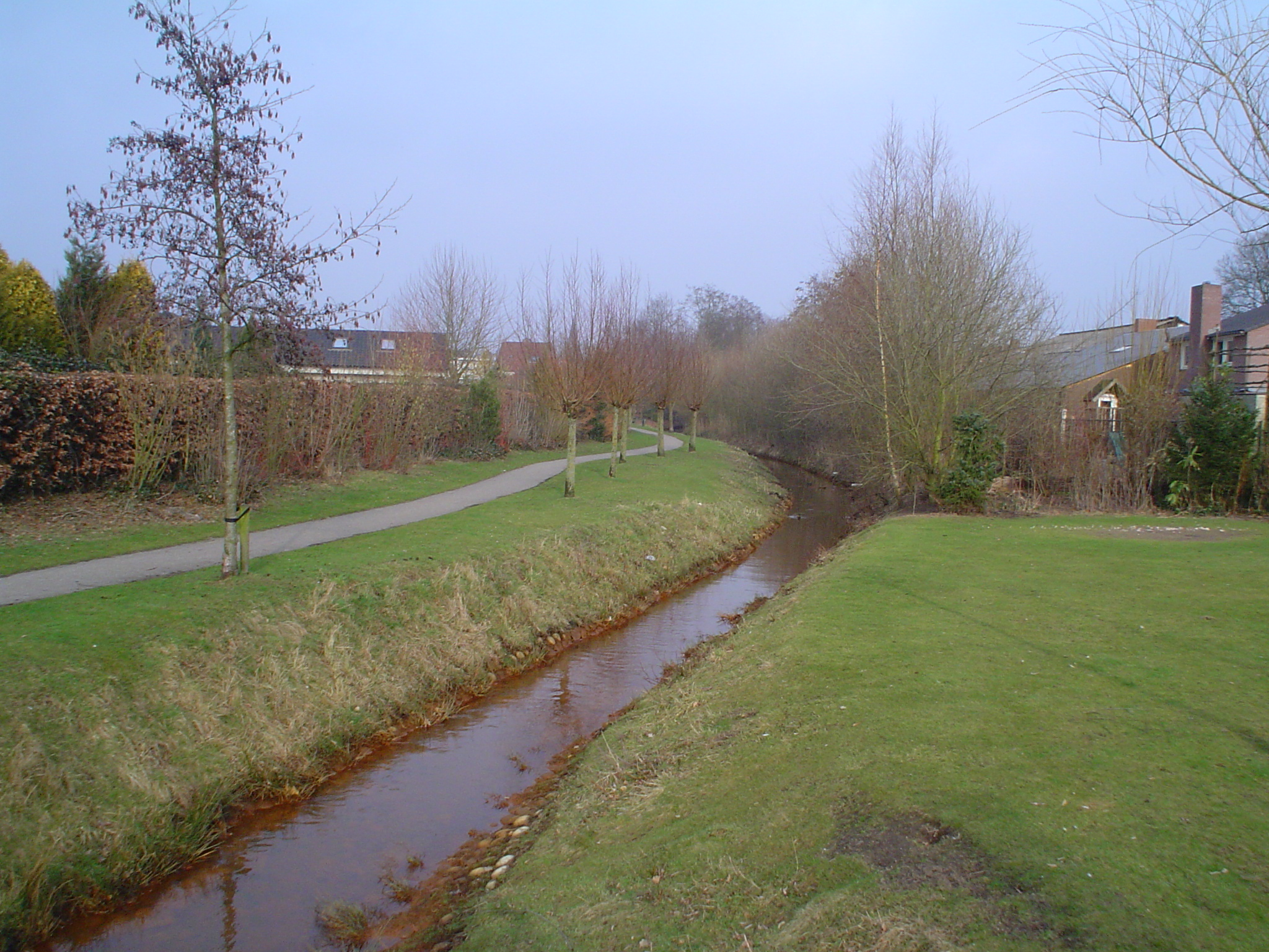 The stream Gender, near the Pegbroekenlaan in Veldhoven, Netherlands